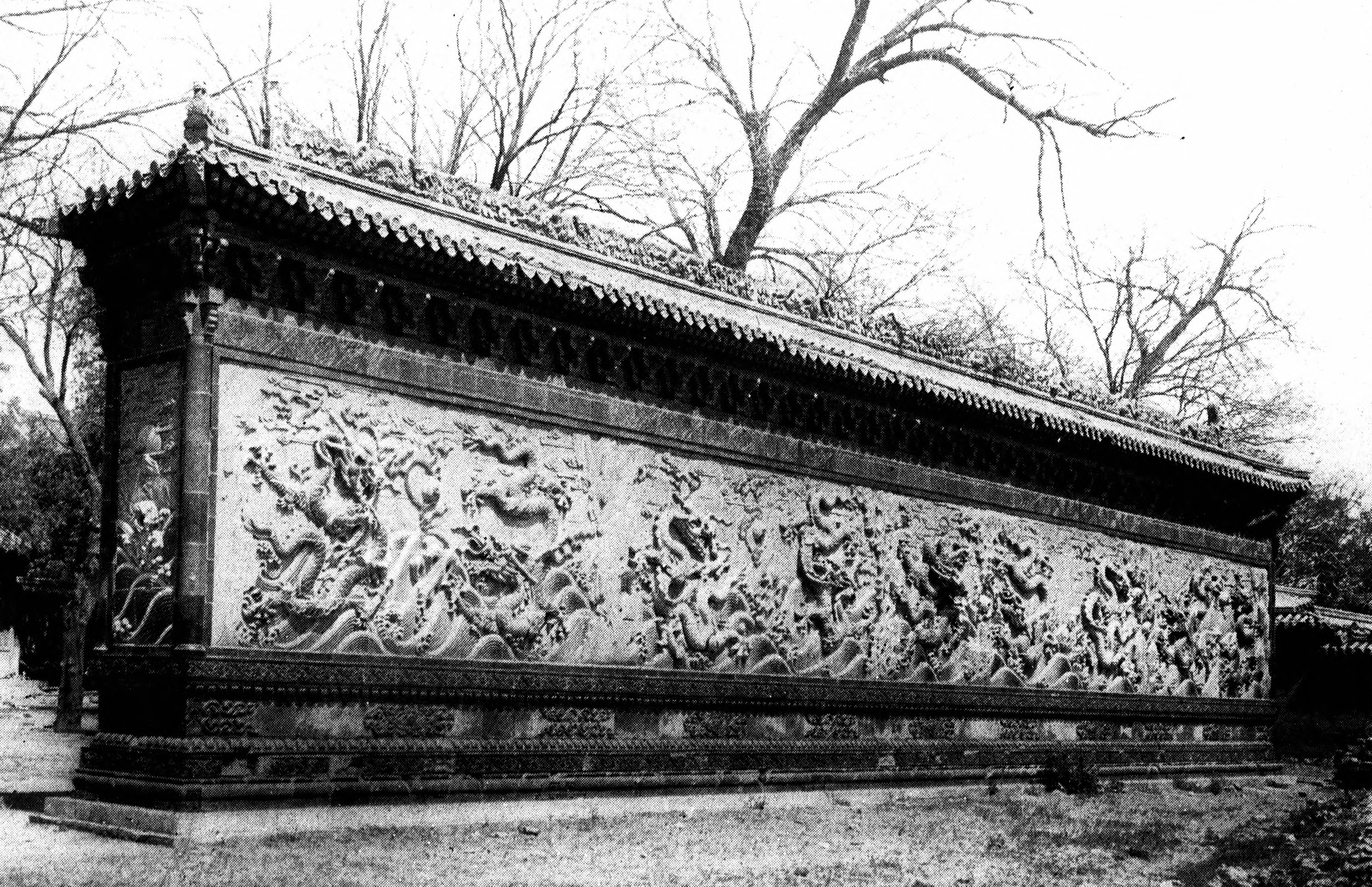 Photo from China in Convulsion (1901)